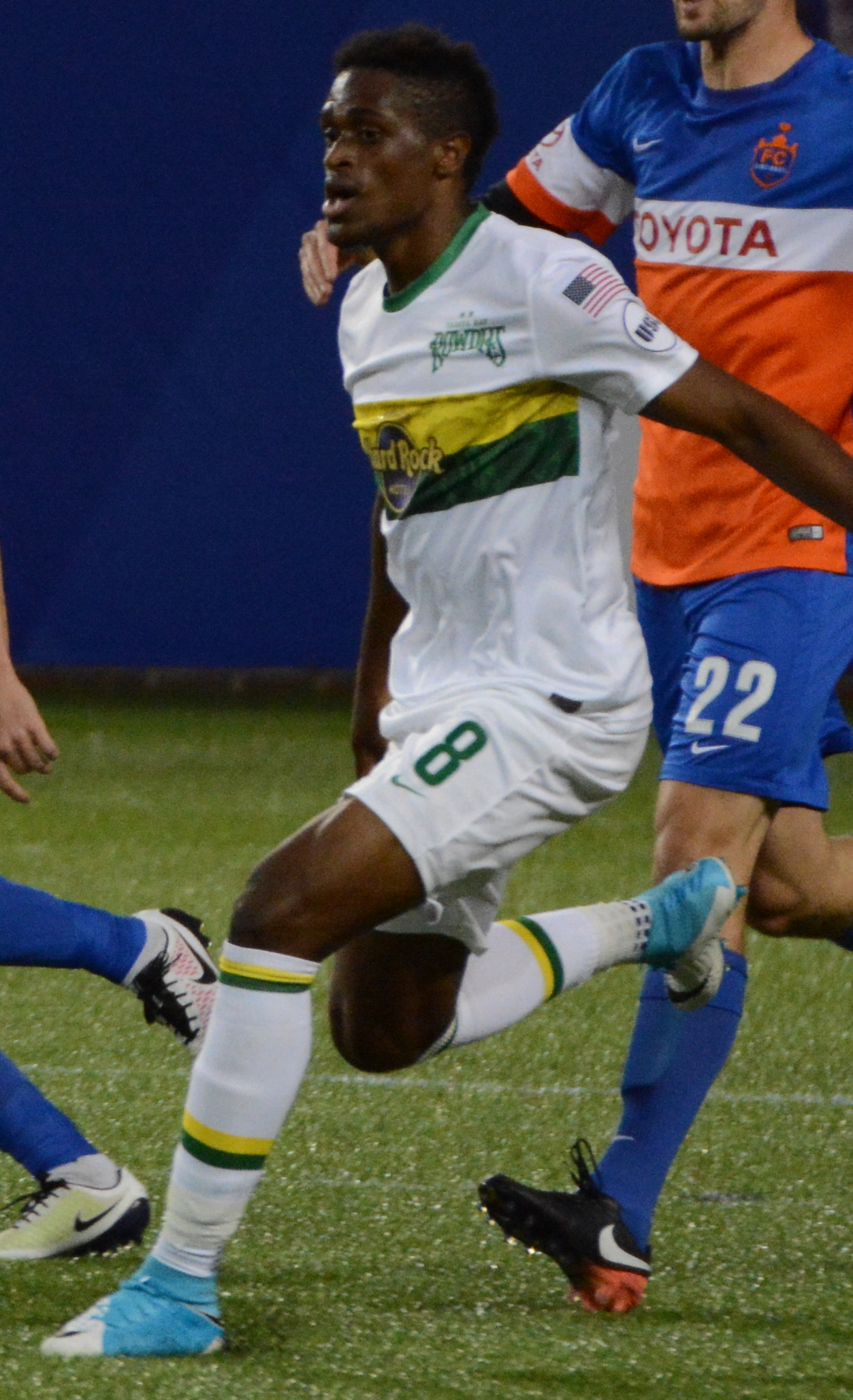 Daryl Fordyce, Deshorn Brown Taken during a match between FC Cincinnati and Tampa Bay Rowdies at Nippert Stadium in Cincinnati, USA on April 19, 2017.